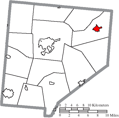 Map of the municipal and township boundaries of Clinton County, Ohio, United States, as of the 2000 census, with the location of the village of Sabina highlighted. Township borders are shown only in unincorporated areas in order to differentiate incorporated and unincorporated areas more clearly.